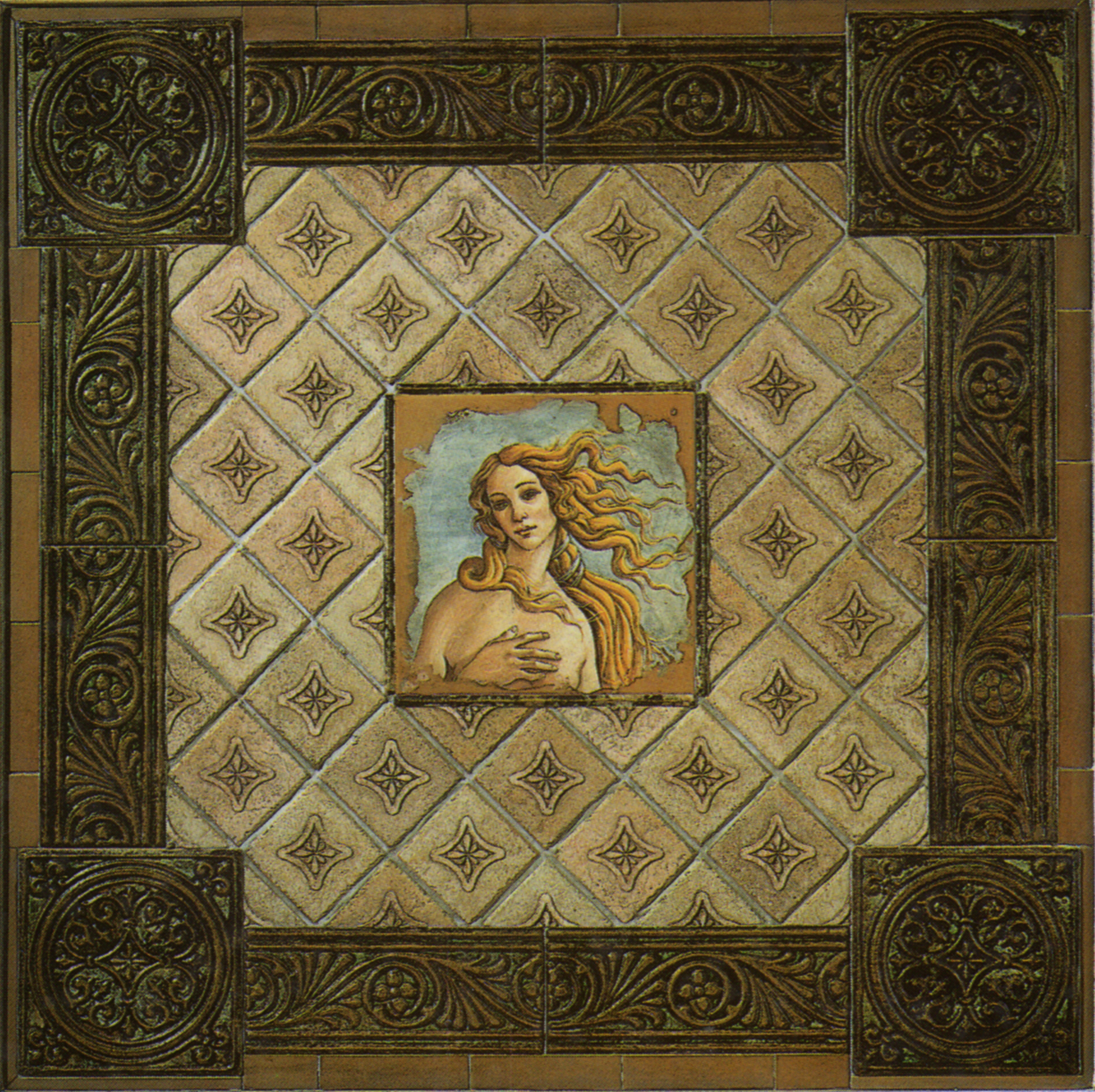 Venere, Ceramic panel, 120x120 cm, 1995, made by Enzo Manara